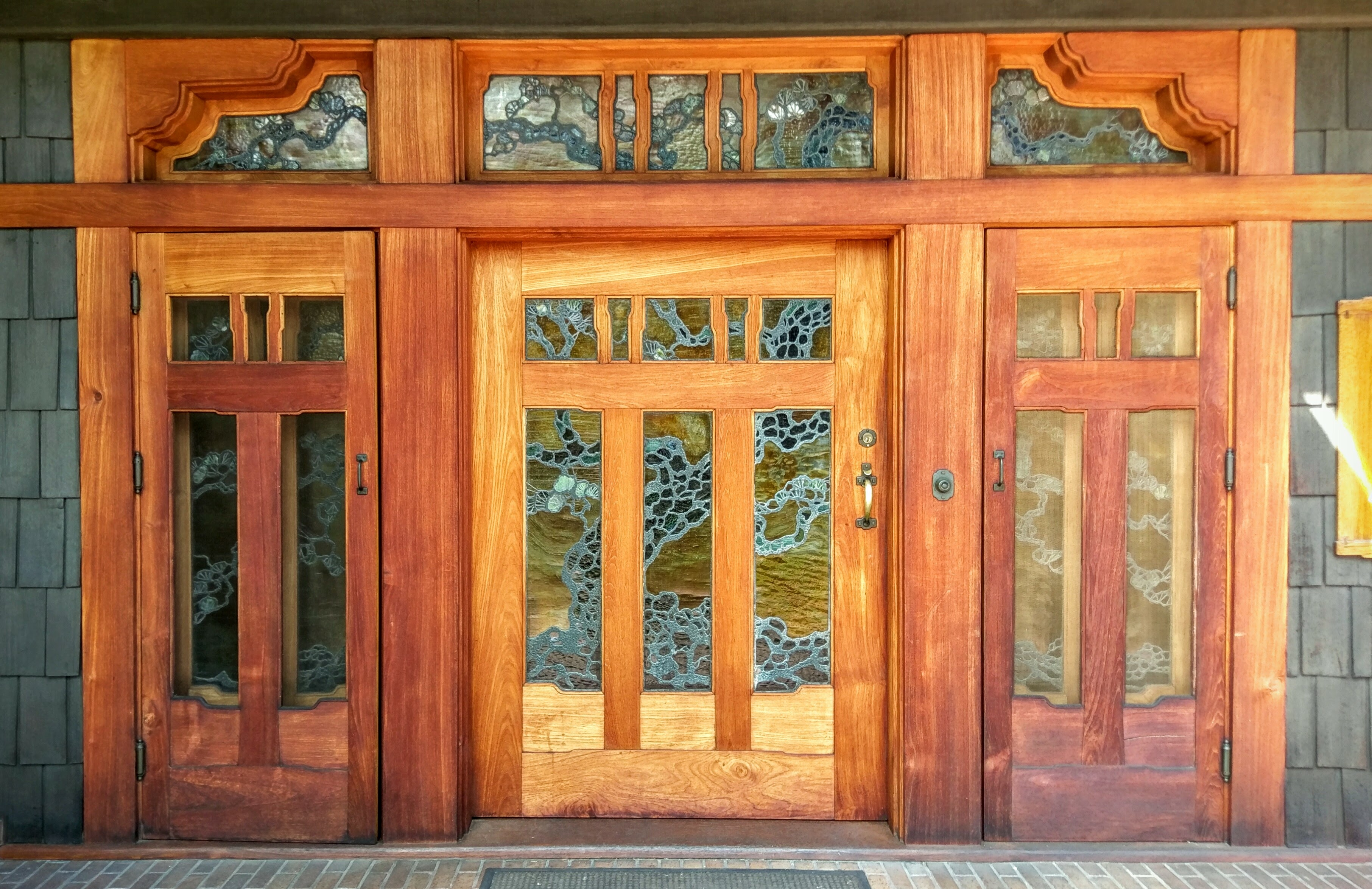 Entrance doors to the Gamble House. Photo by Jim Heaphy.